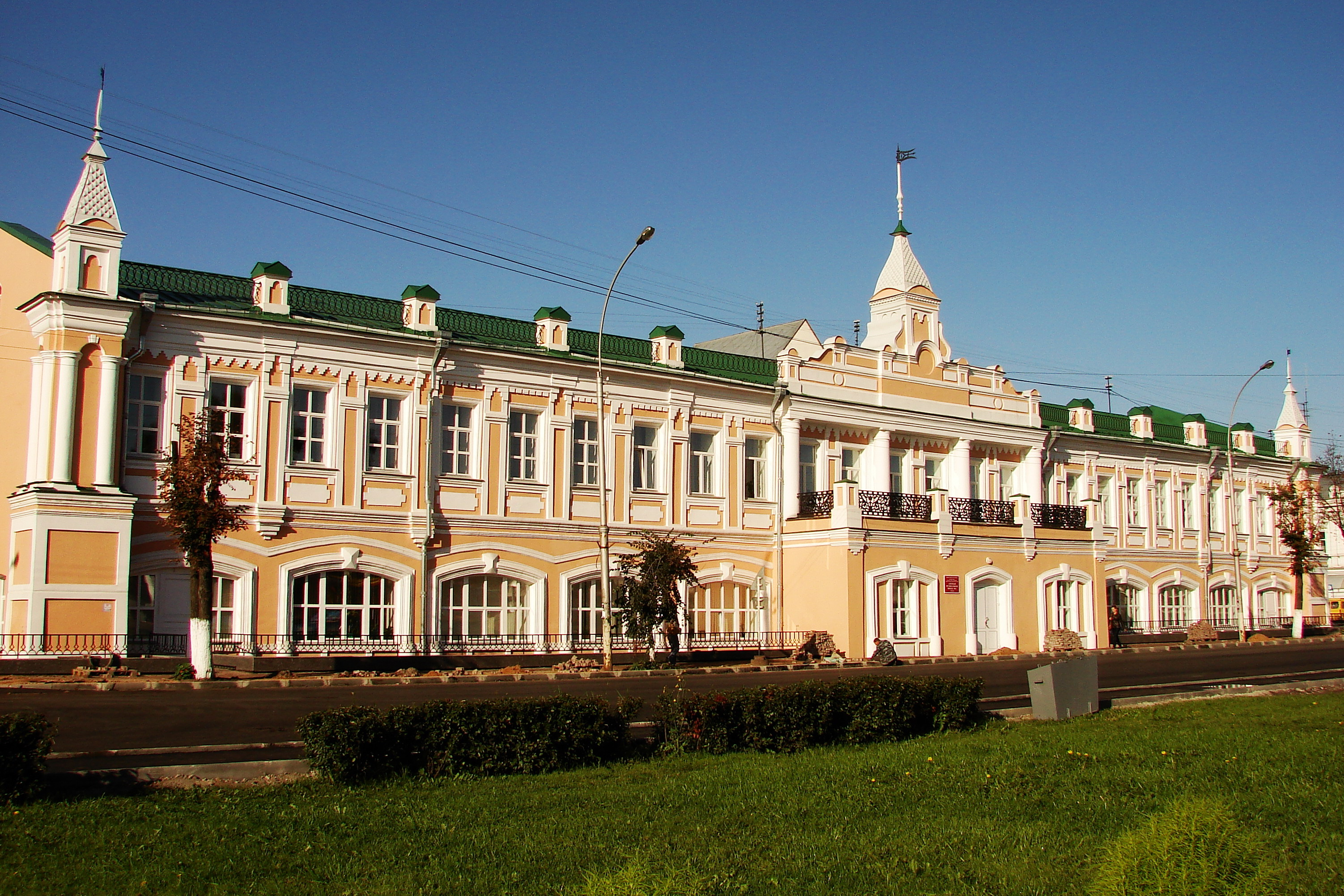 Russia, Vologda, Building of the former Vologda municipal Duma